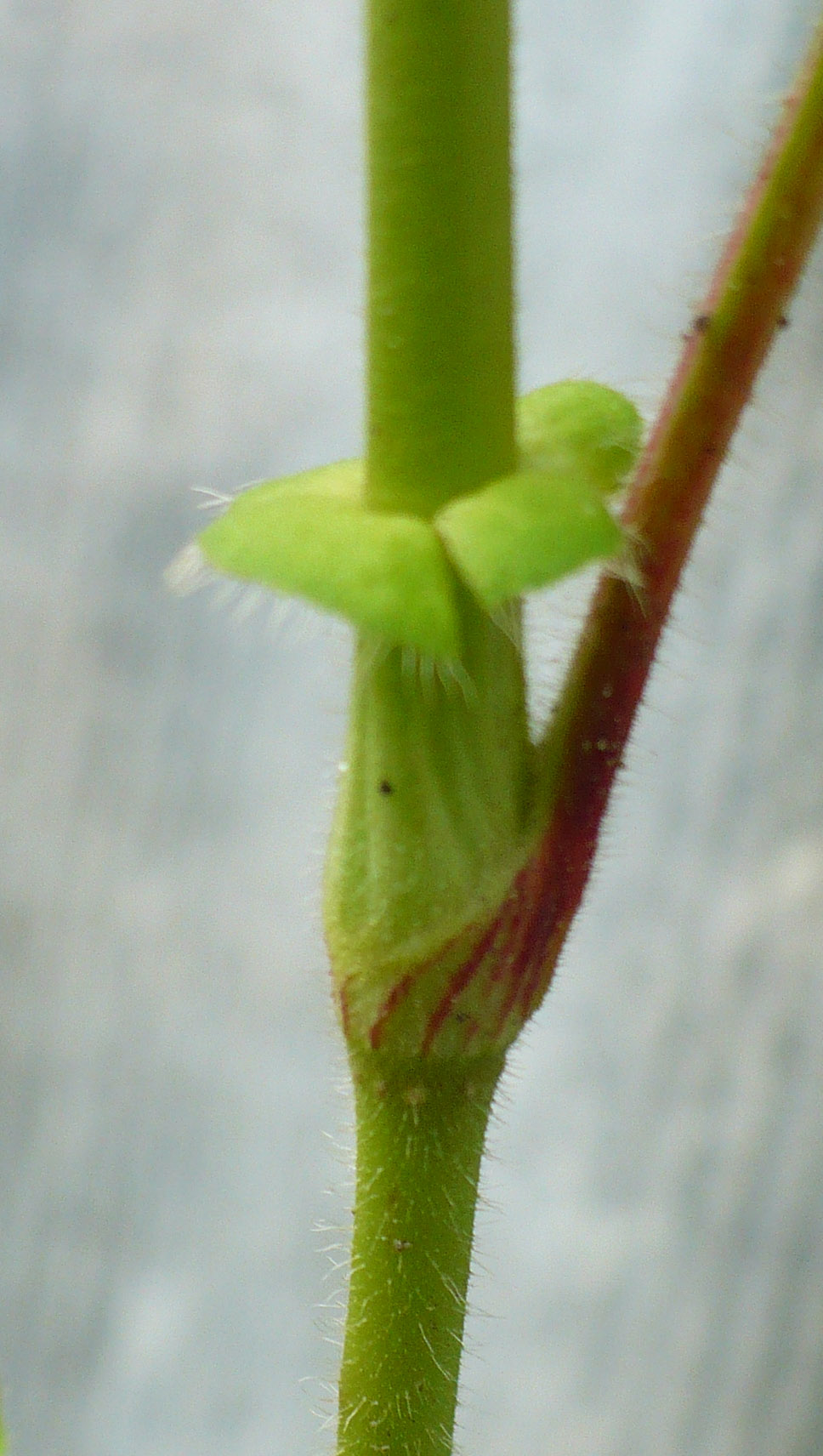 Ochrea of Persicaria orientalis